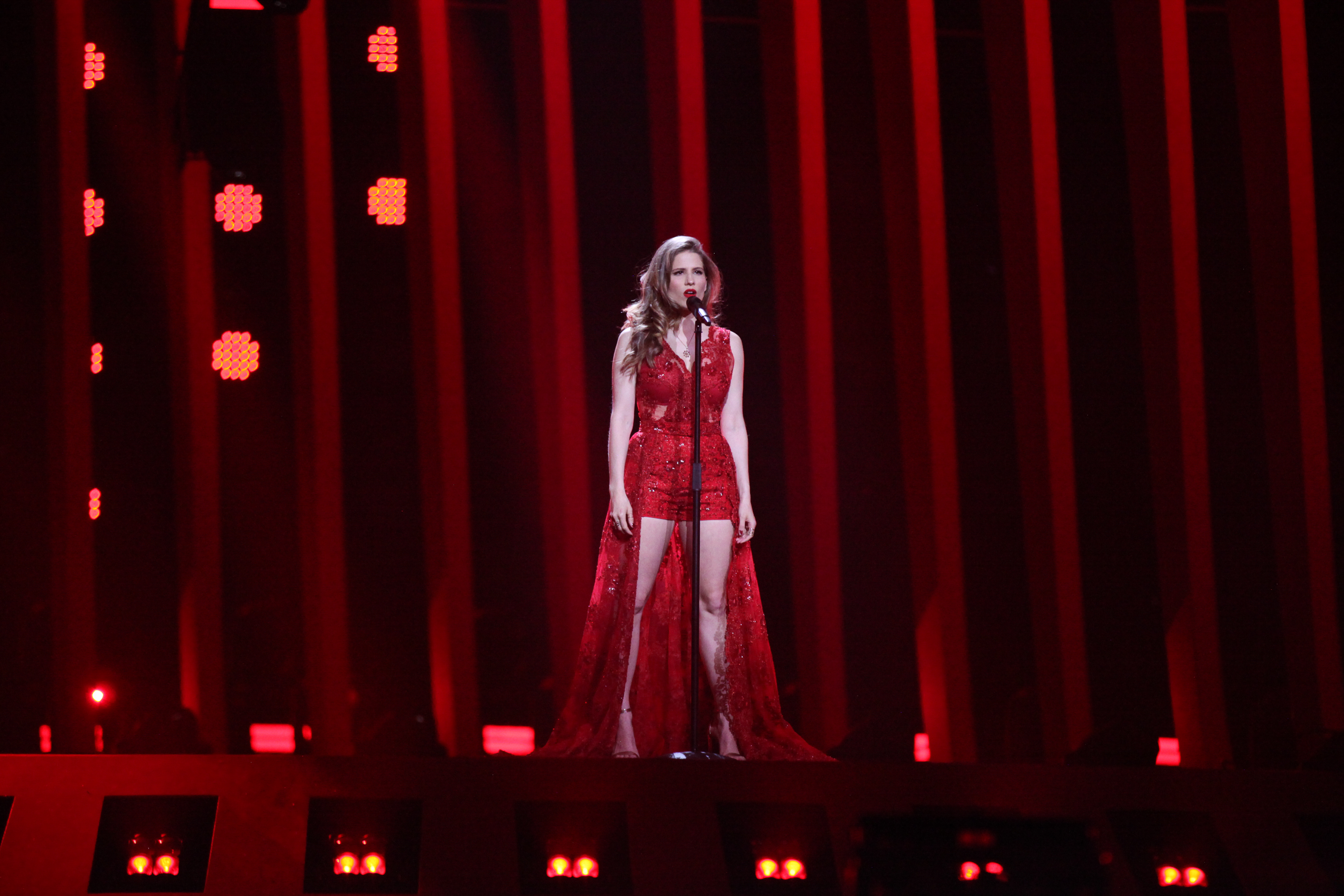 Laura Rizzotto representing Latvia with the song "Funny Girl" during a rehearsal before the second semi final of the Eurovision Song Contest 2018 in Lisbon.